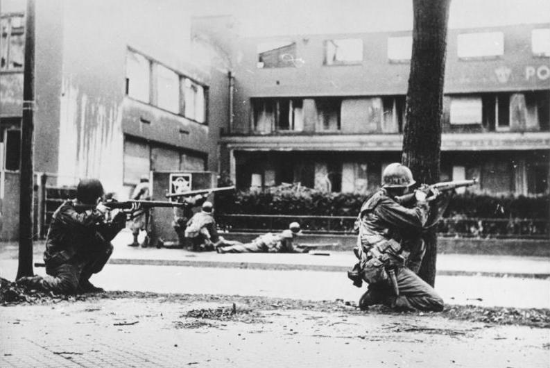 Title: Mannheim, US-Truppen im Straßenkampf Extra information: Mannheim.- amerikanische Soldaten mit Gewehren und Bazooka zielend Factual corrections and alternative descriptions are encouraged separately from the original description. Additionally errors can be reported at this page to inform the Bundesarchiv. Original historic description: PNA FRA 104825 U.S. Troops Battle Snipers in Mannheim Infantrymen of the 44th Division, Seventh U.S. Army, fire at snipers concealed in a building in Mannheim, Germany, during mopping-up operations on the day of its capture March 29, 1945. On the far side of the street, a soldier with a bazooka gun is about to fire a rocket at the position. The city was subjected to such heavy shelling and bombing that hardly a building remained intact. Mannheim is on the Rhine River 35 miles south of Mainz. OWI Staff Photo by Richard Boyer. Reserviced by London OWI to List B-1 Certified as passed by Shaef Censor